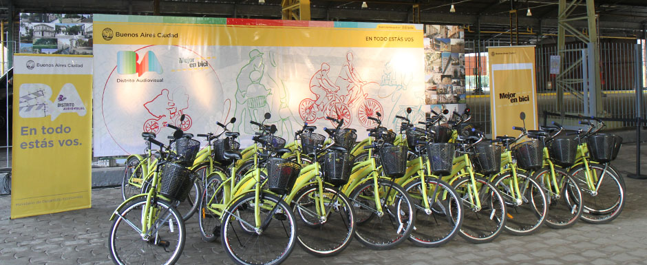 Buenos Aires. 13 June 2012. Buenos Aires Mayor Mauricio Macri inaugurated the 22nd station in the Audiovisual District in the neighborhood of Colegiales of the bicycle sharing system (EcoBici) and said "40 thousand people have already signed up to use the service that the city provides free of charge".